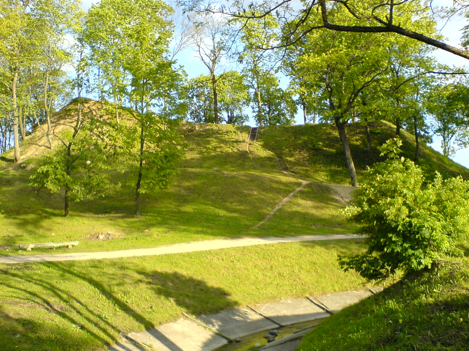 The castle mound in Ukmergė, Lithuania. Photo made on June 3, 2006 by Juraune